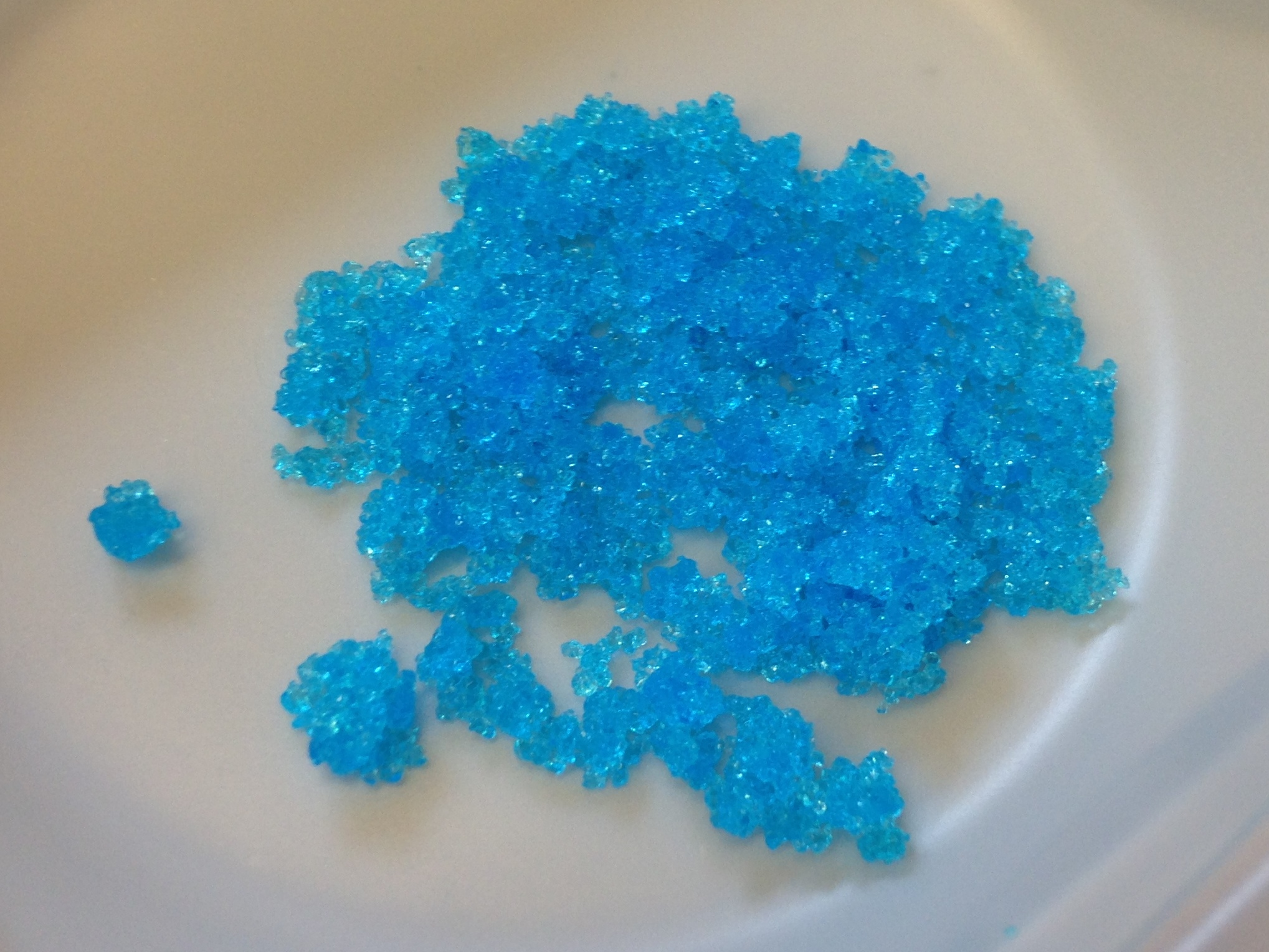 Copper(II) (cupric) perchlorate hexahydrate. Formula: Cu(ClO4)2-6H2O